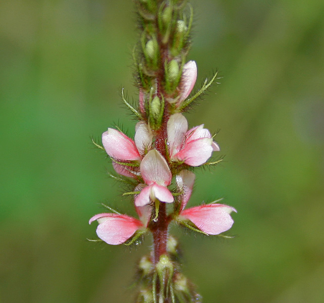 Silky indigo or Phulzadi Indigofera astragalina in Hyderabad , India.